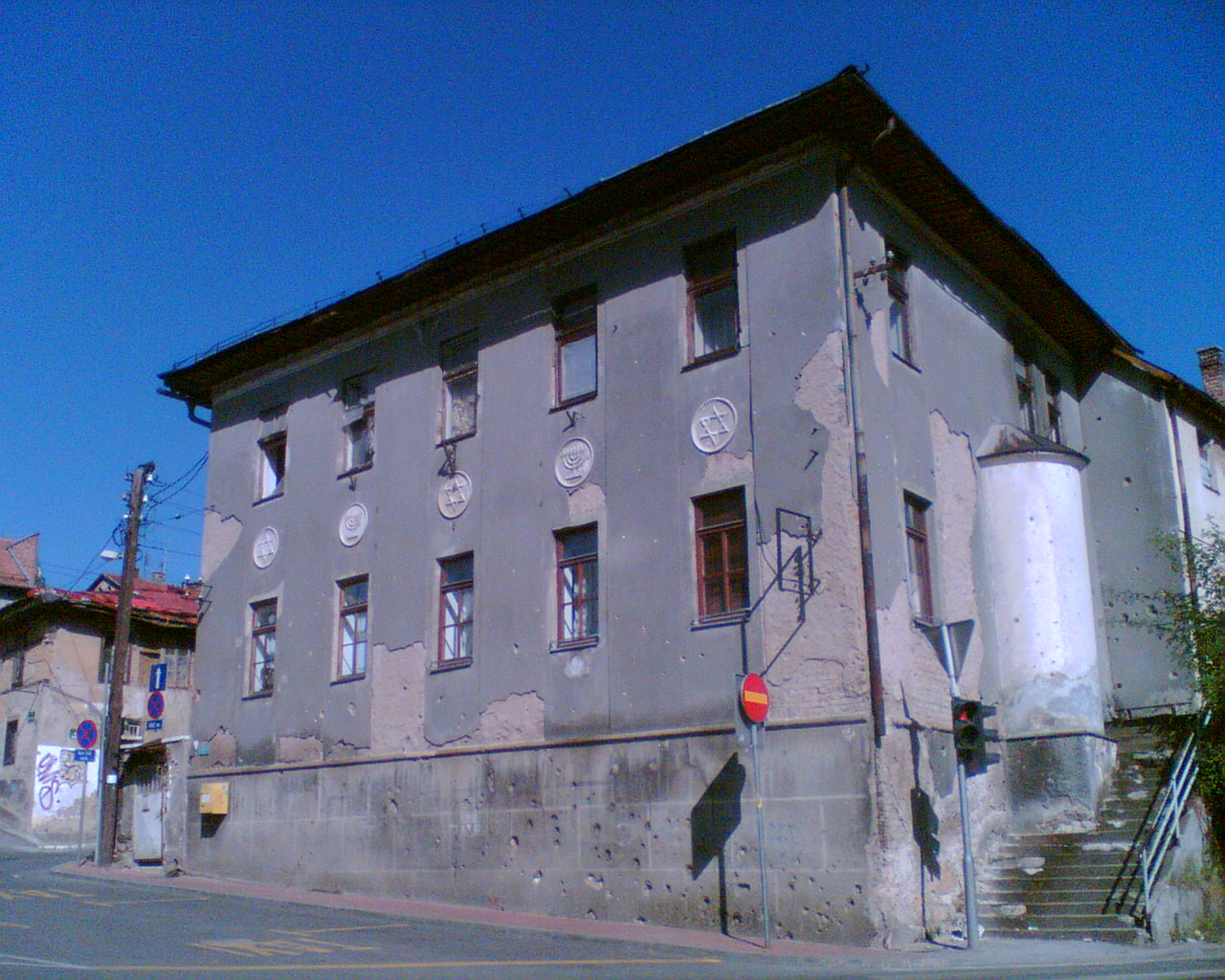 Kal Di La Bilava synagogue in Bjelave neighbourhood of Sarajevo. During WW2 the building was Confiscated by the Ustaše and was used as a detention Facility.